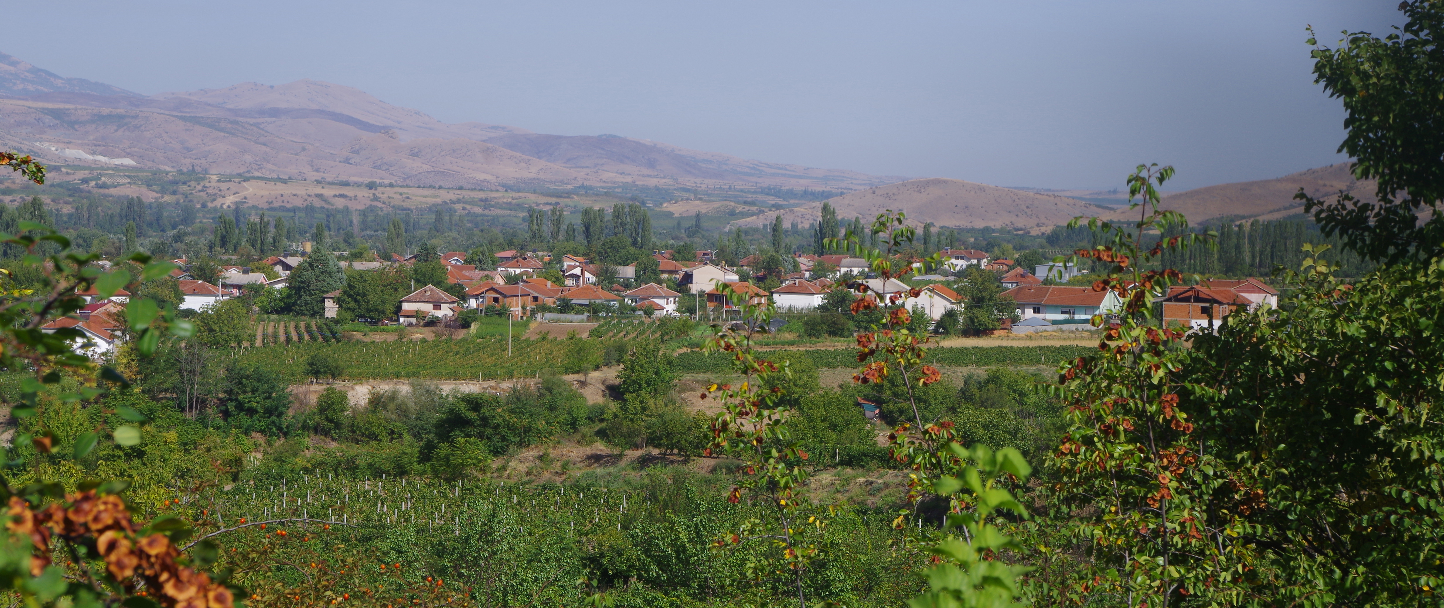 Panoramic view of the village of Vozarci